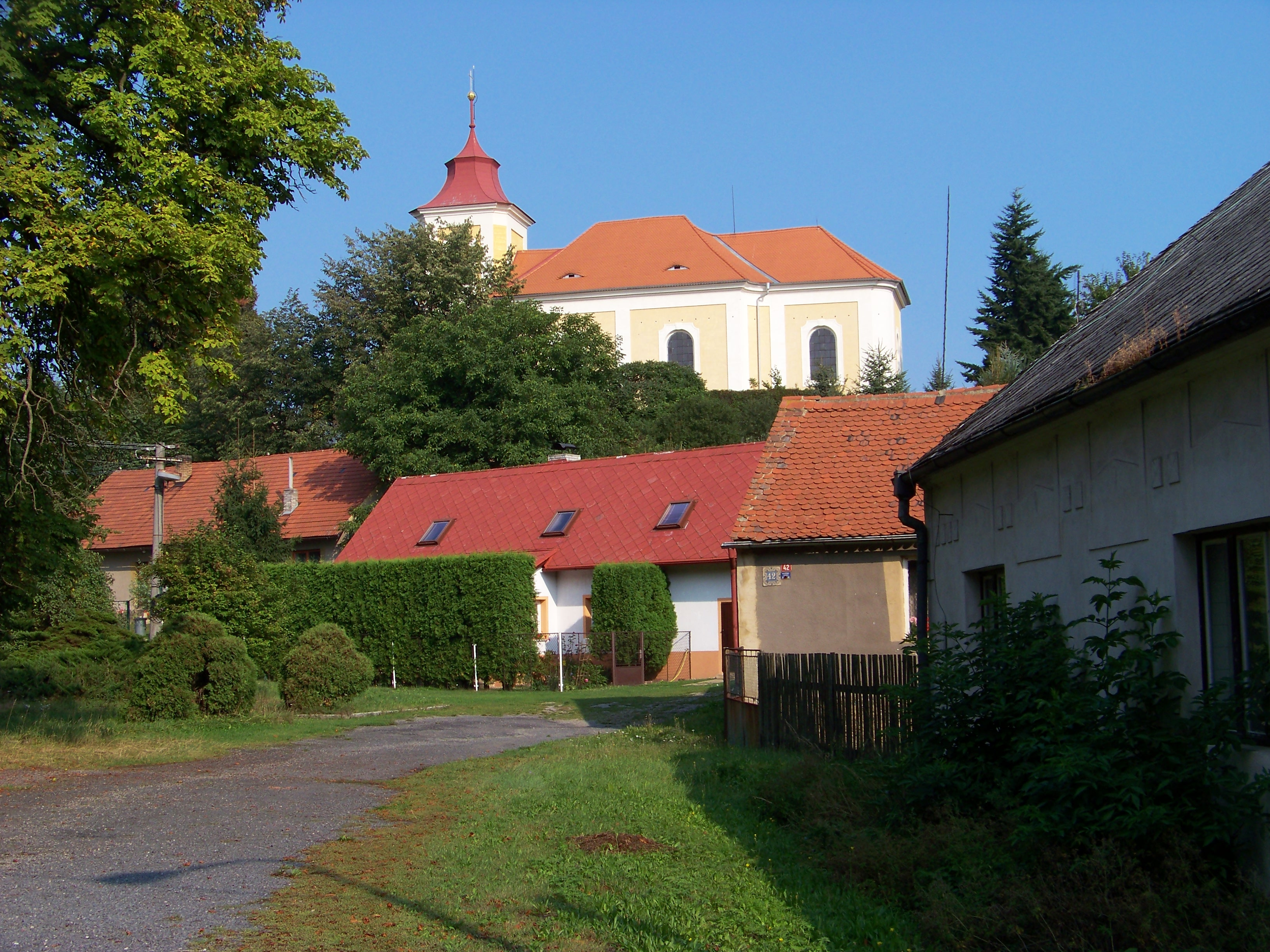 Všesulov, Rakovník District, Central Bohemian Region, the Czech Republic. Church of Saint Martin.